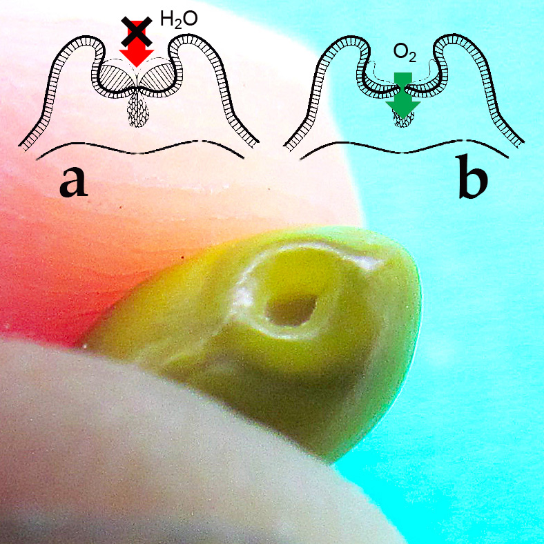 Genista monosperma "hygroscopic valve"